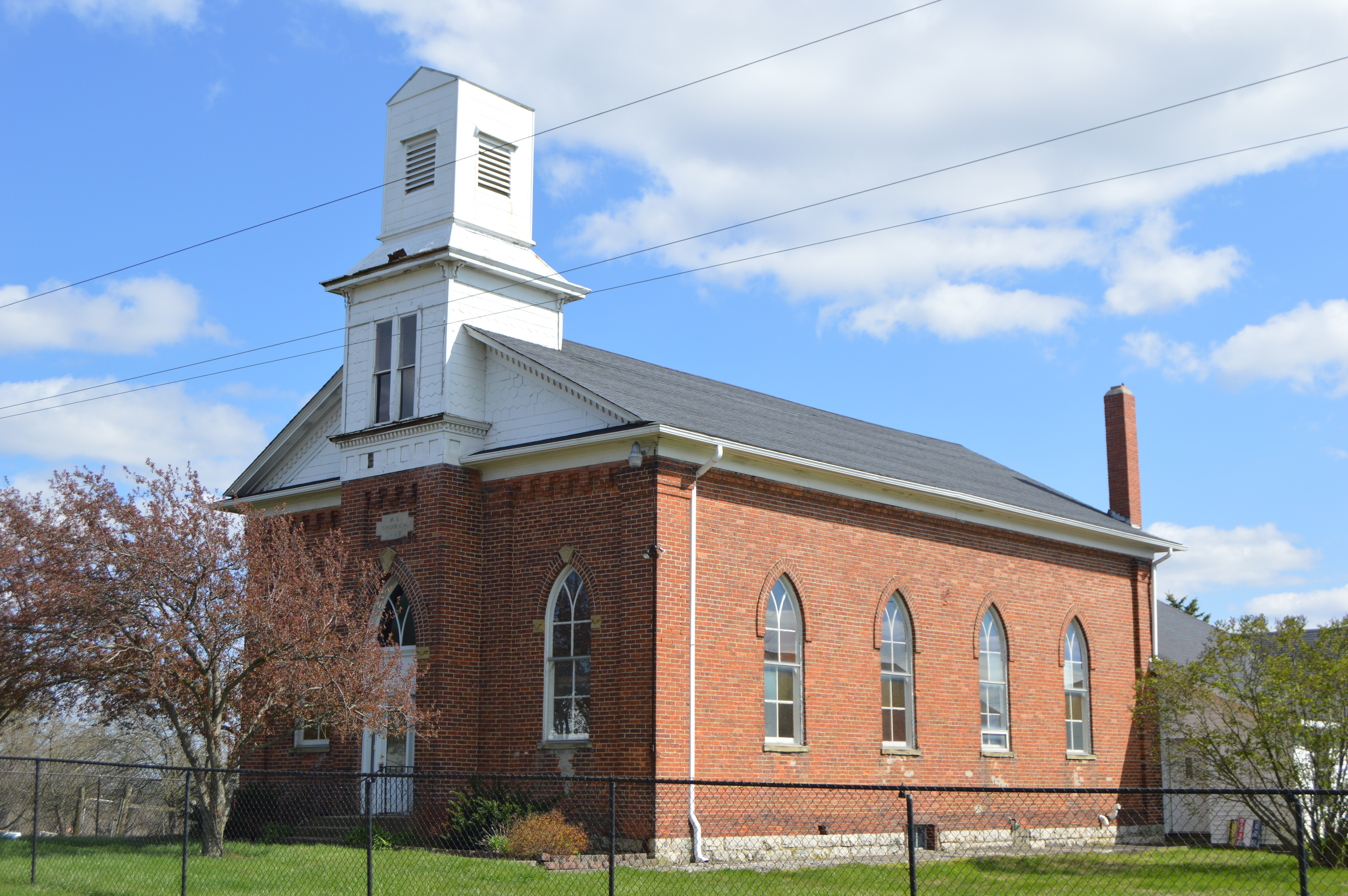 Front and eastern side of the former Big Plain United Methodist Church, located at 8685 Big Plain Circleville Road at Big Plain in Fairfield Township, Madison County, Ohio, United States. It was built in 1883.